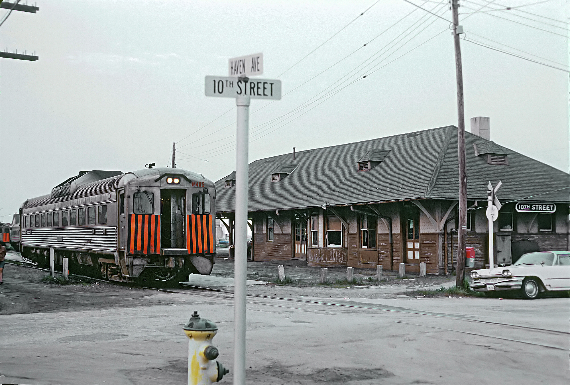 PRSL RDC M405 at 10th Street Station, Ocean City, NJ on August 15, 1970